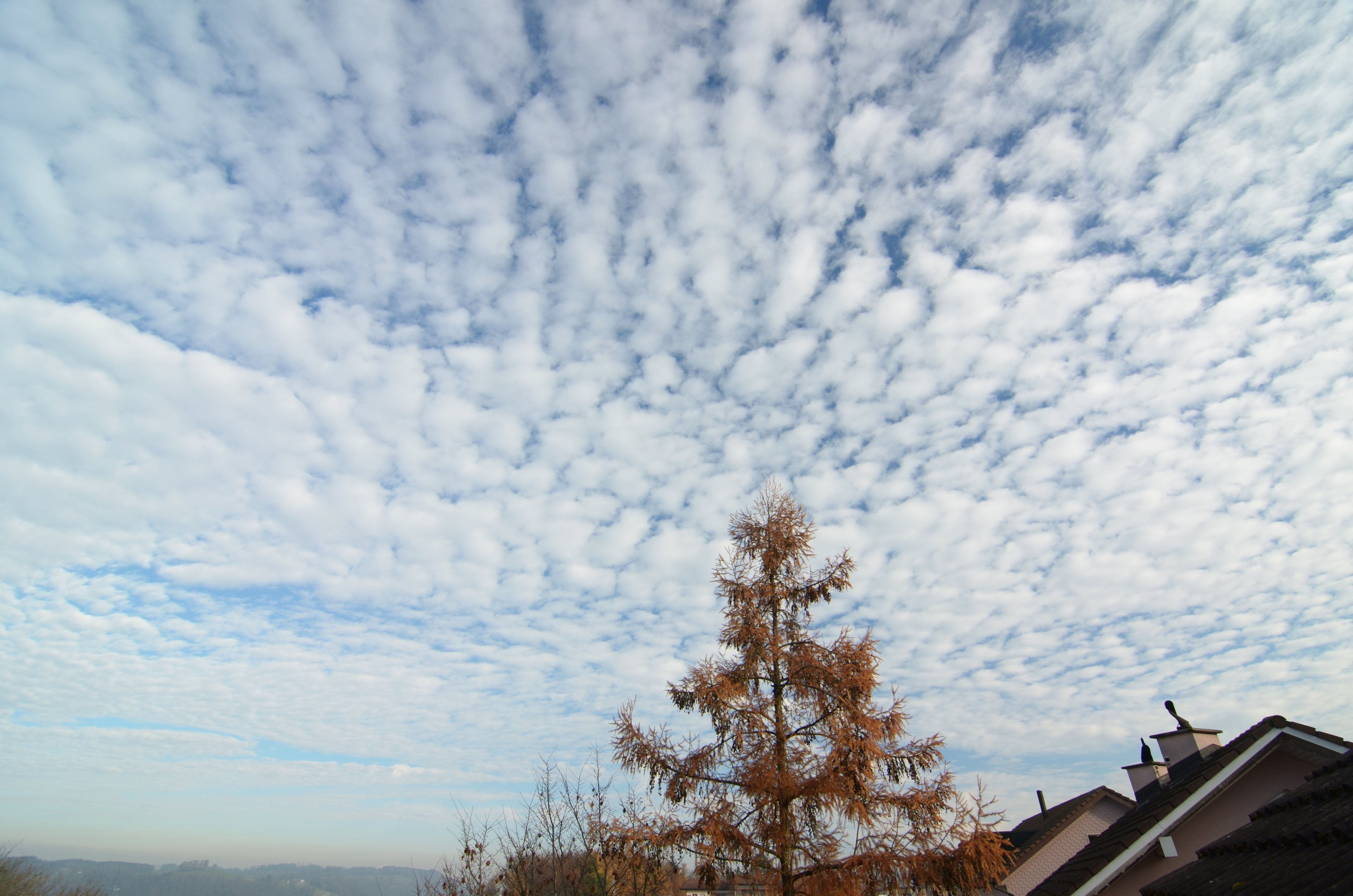 Altocumulus clouds (Altocumulus stratiformis translucidus) in an anticyclone present for several weeks already over Europe. In the late morning of this day the sky was covered by Stratocumulus clouds, which by midday rose to Altocumulus clouds.